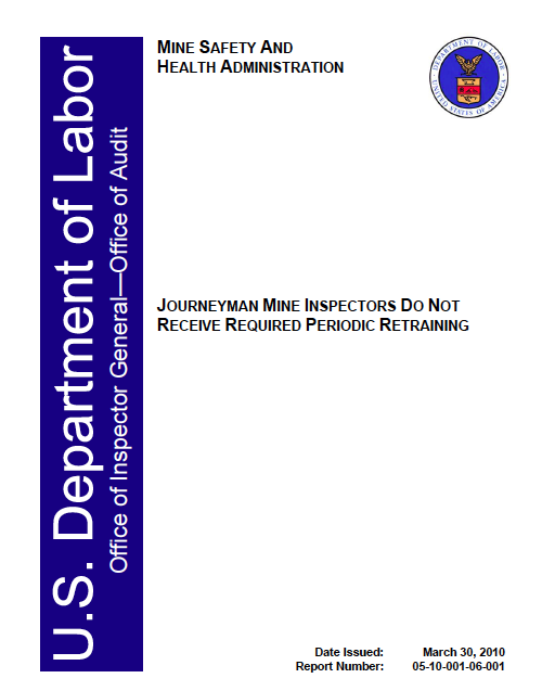 Journeyman Mine Inspectors Do Not Receive Required Periodic Training